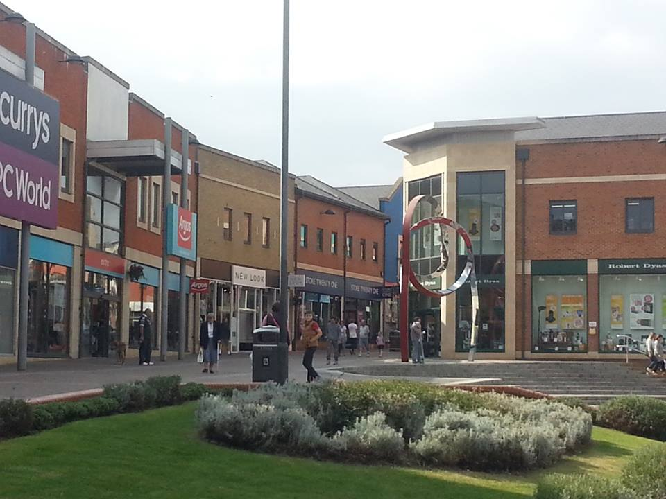 The town centre in Didcot (the Orchard Centre), including the new piece of modern art, 'The Swirl'.